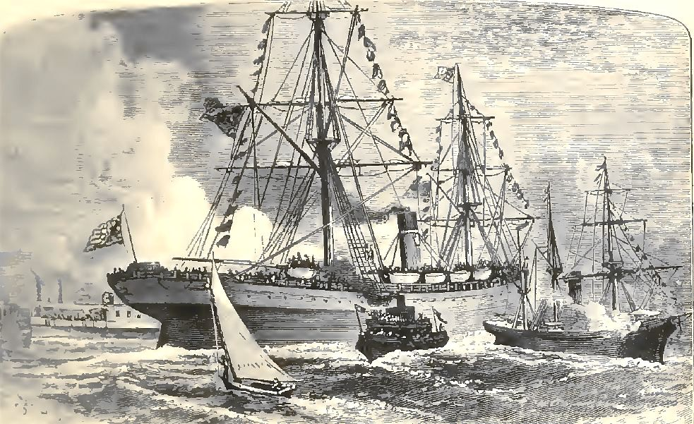 Image of the USS Indiana that carried Grant to Europe on Grant's world tour